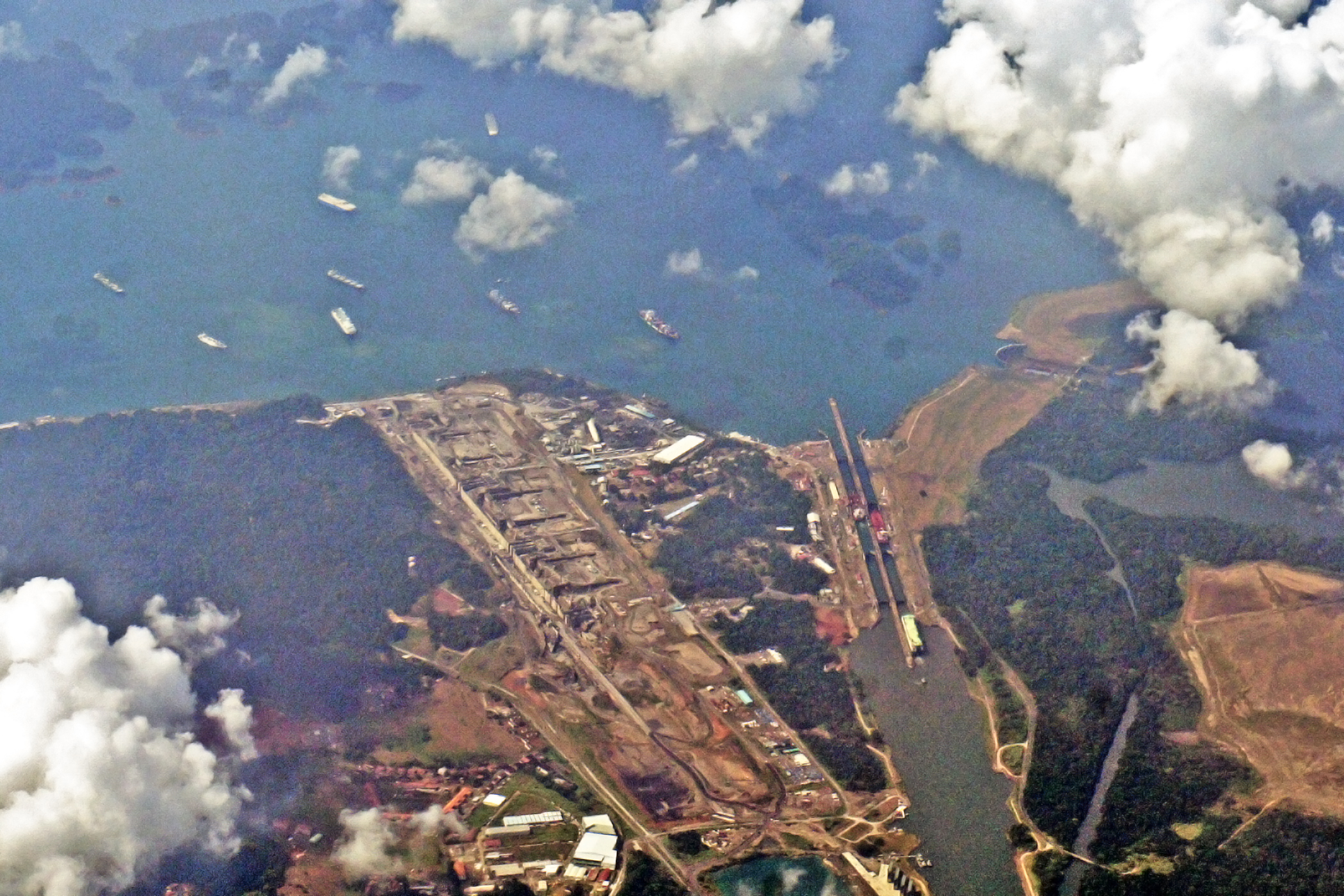 Aerial view of Gatun Locks, Panama Canal. On top, several vessels waiting to cross the locks at Gatun Lake. At the bottom is exit canal to the Atlantic Ocean. At the left of the existing locks is the construction area for the new locks part of the Panama Canal expansion project.